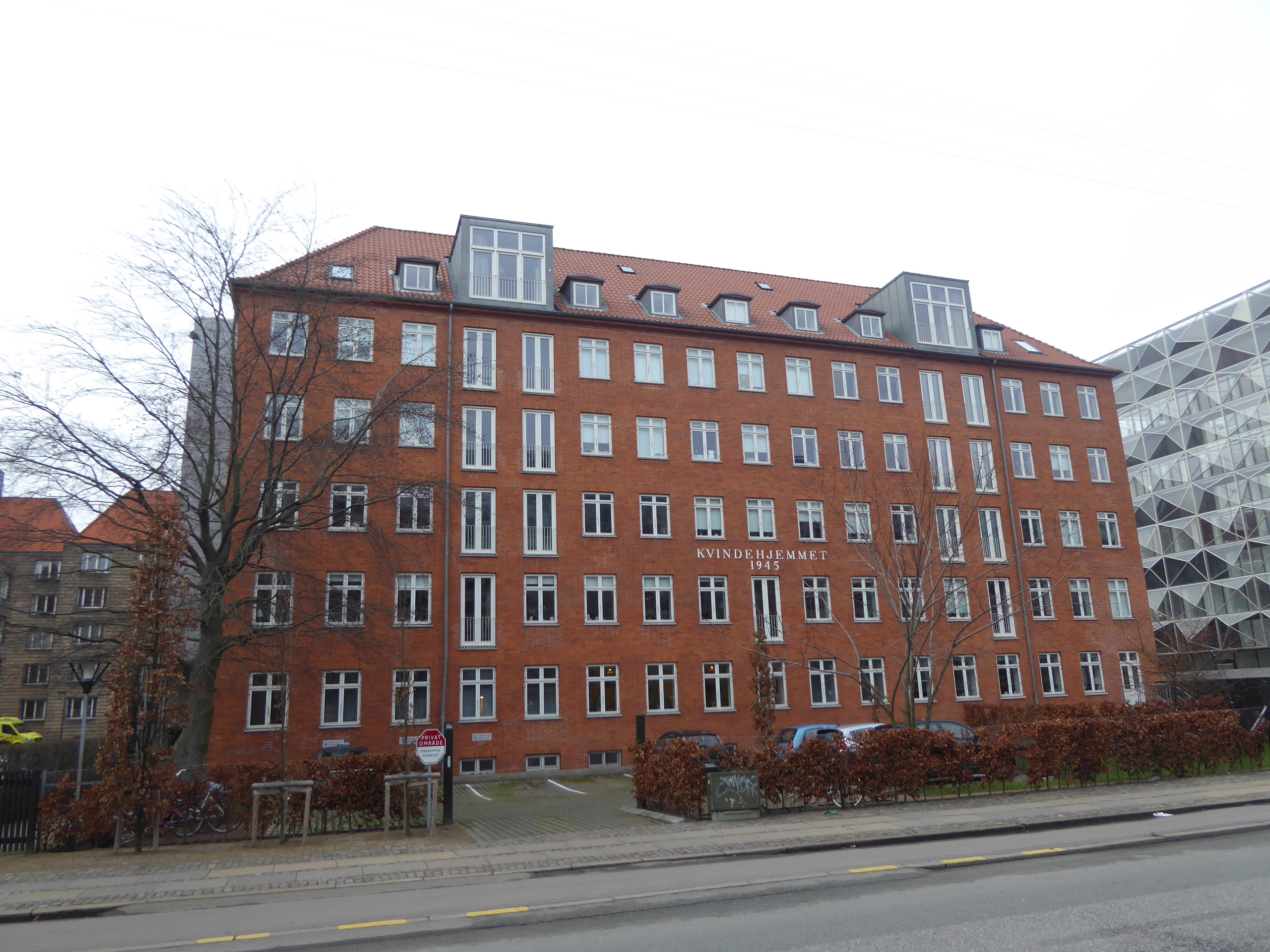 The woman crisis centre Kvindehjemmet at Jagtvej in Nørrebro in Copenhagen.